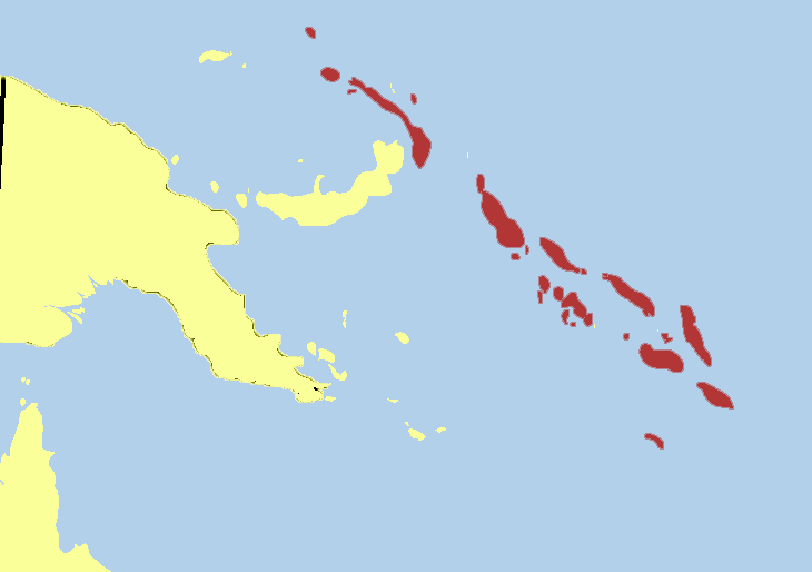 The Distribution of the Finsch's Pygmy Parrot